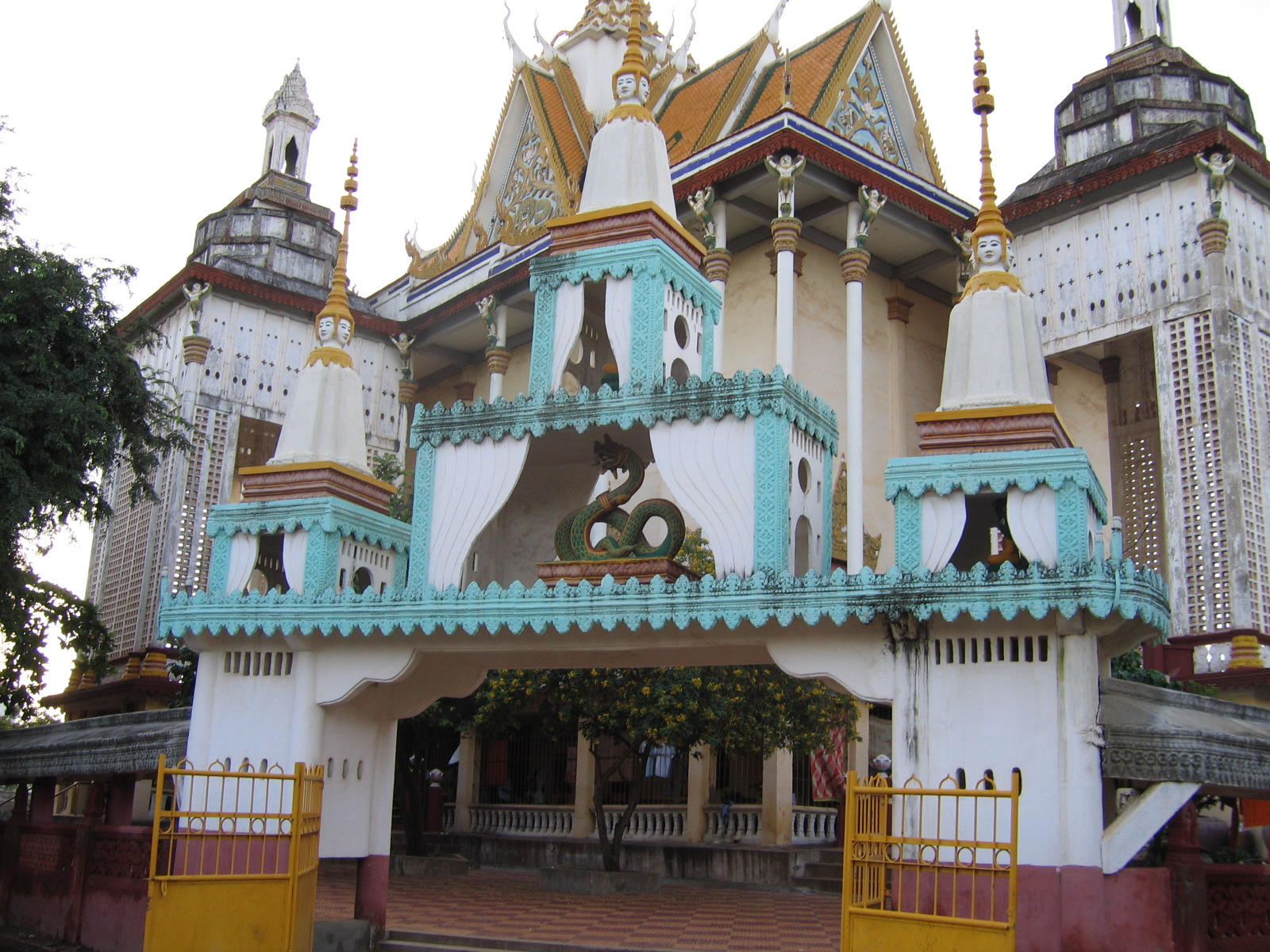 Main pagoda